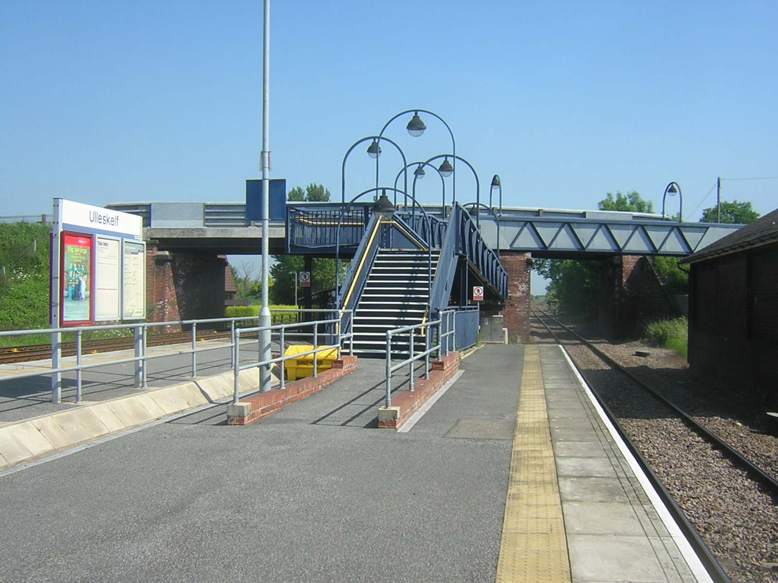 Photograph, taken by myself, Mark Morton, on 10 June 2006.